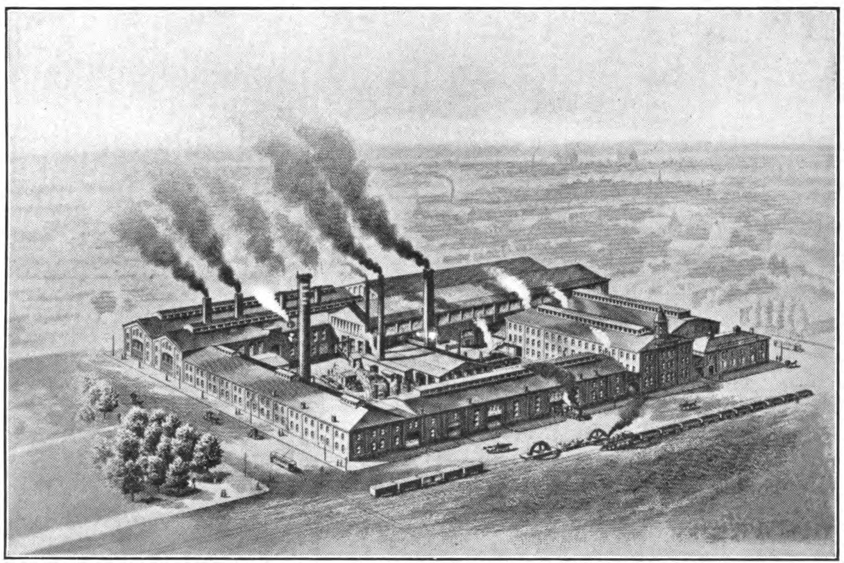 Southwark Foundry and Machine, Philadelphia, Pa.